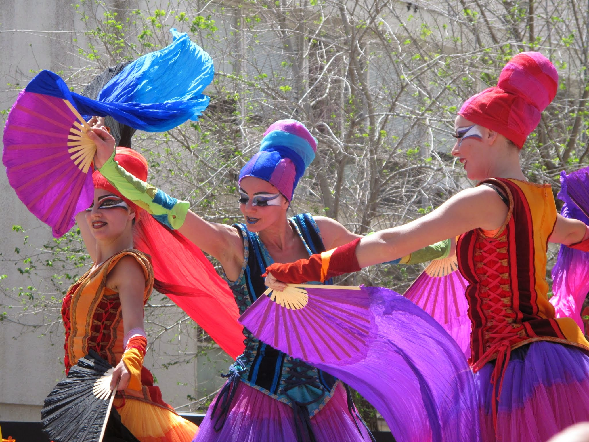 The Haifa International Children’s Theater Festival